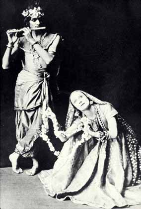 Uday Shankar and Ana Pavlova in 'Radha-Krishna' ballet, ca 1922.